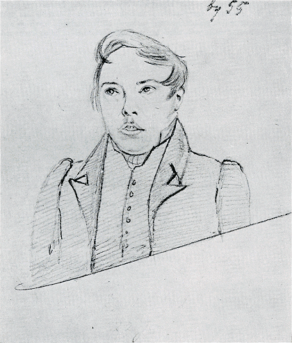 Reinier Cornelis Bakhuizen van den Brink (1810-1865). Drawing by P. Cool, 1831-1832